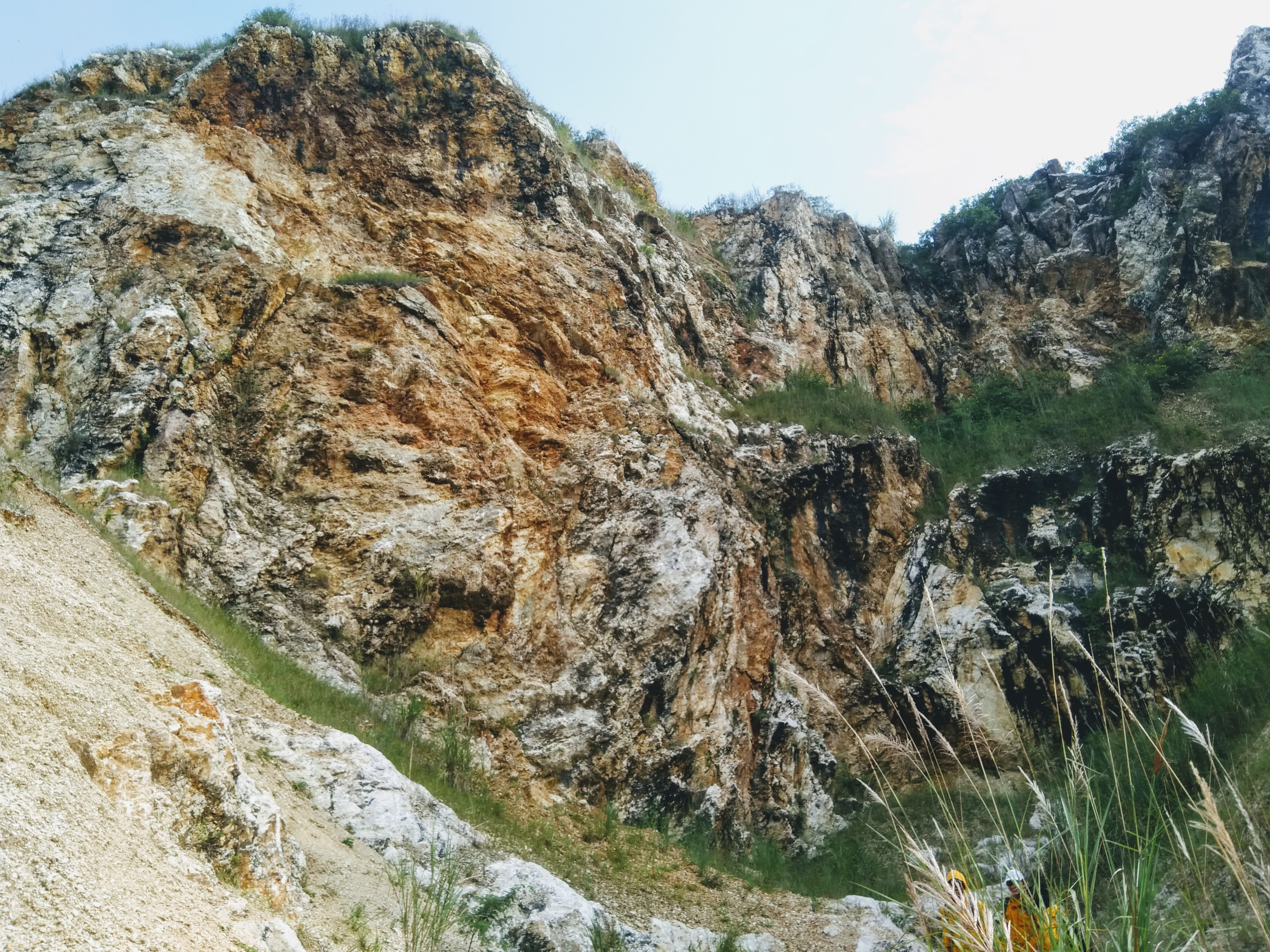 Large limestone outcrop from Rajamandala Formation in Citatah, Cipatat, West Bandung.